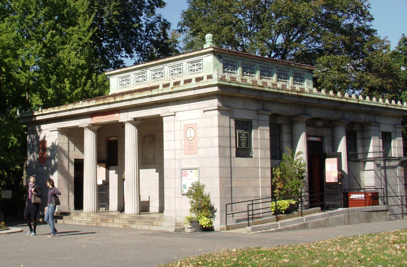 Looking north at information center of Fort Greene Park on a sunny midday.